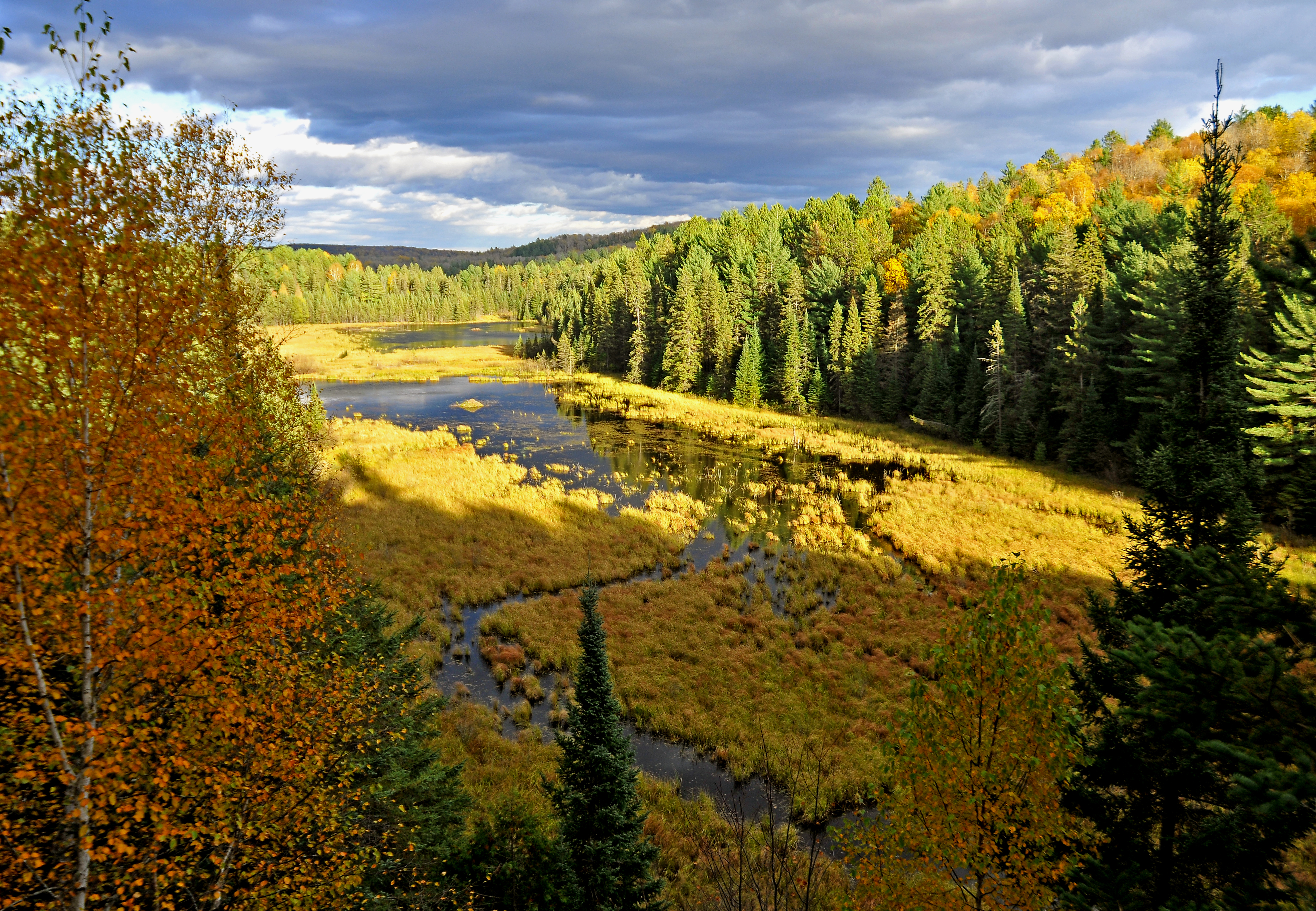 Beaver pond beside the "Beaver Pond Trail". Algonquin Provincial Park, Ontario, Canada